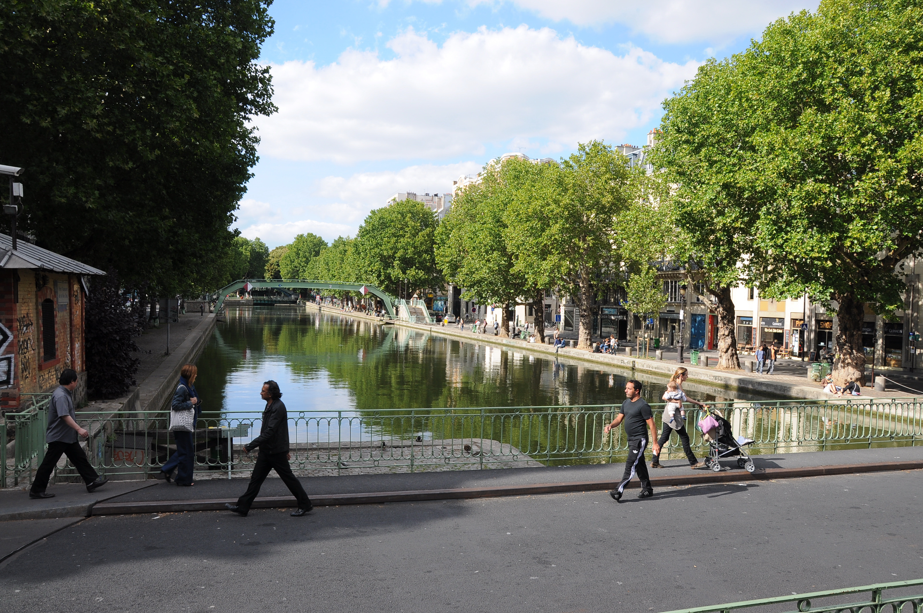 Passerelle Richerand at the Canal Saint-Martin in Paris in Paris.